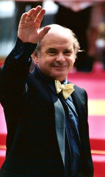 Jean-François Stévenin at the Cannes Film Festival